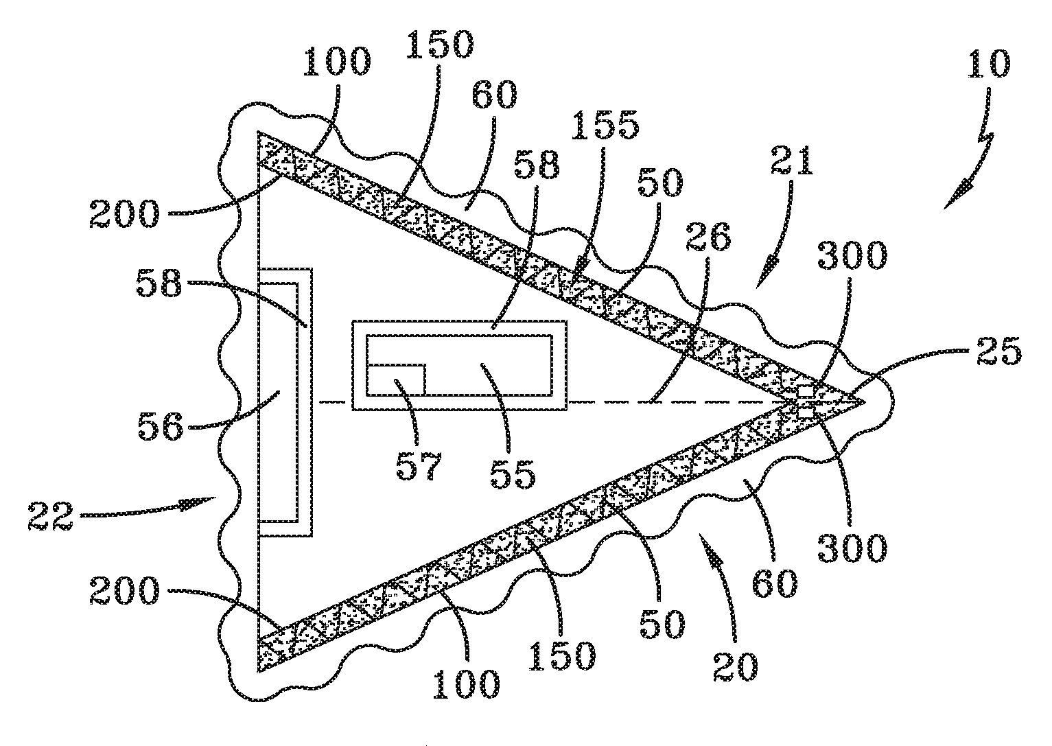 Craft using an inertial mass reduction device Patent US10144532